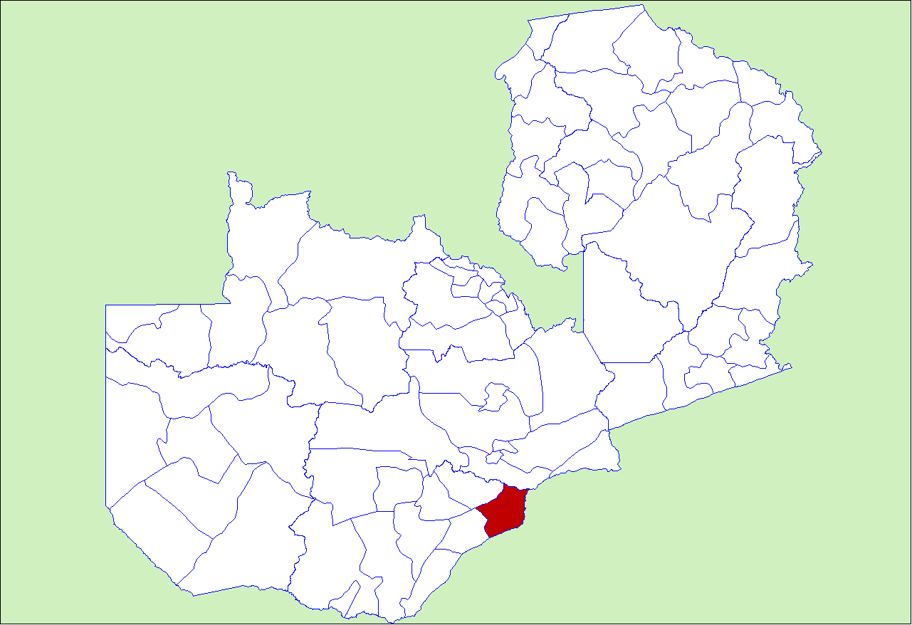 District locator in Zambia